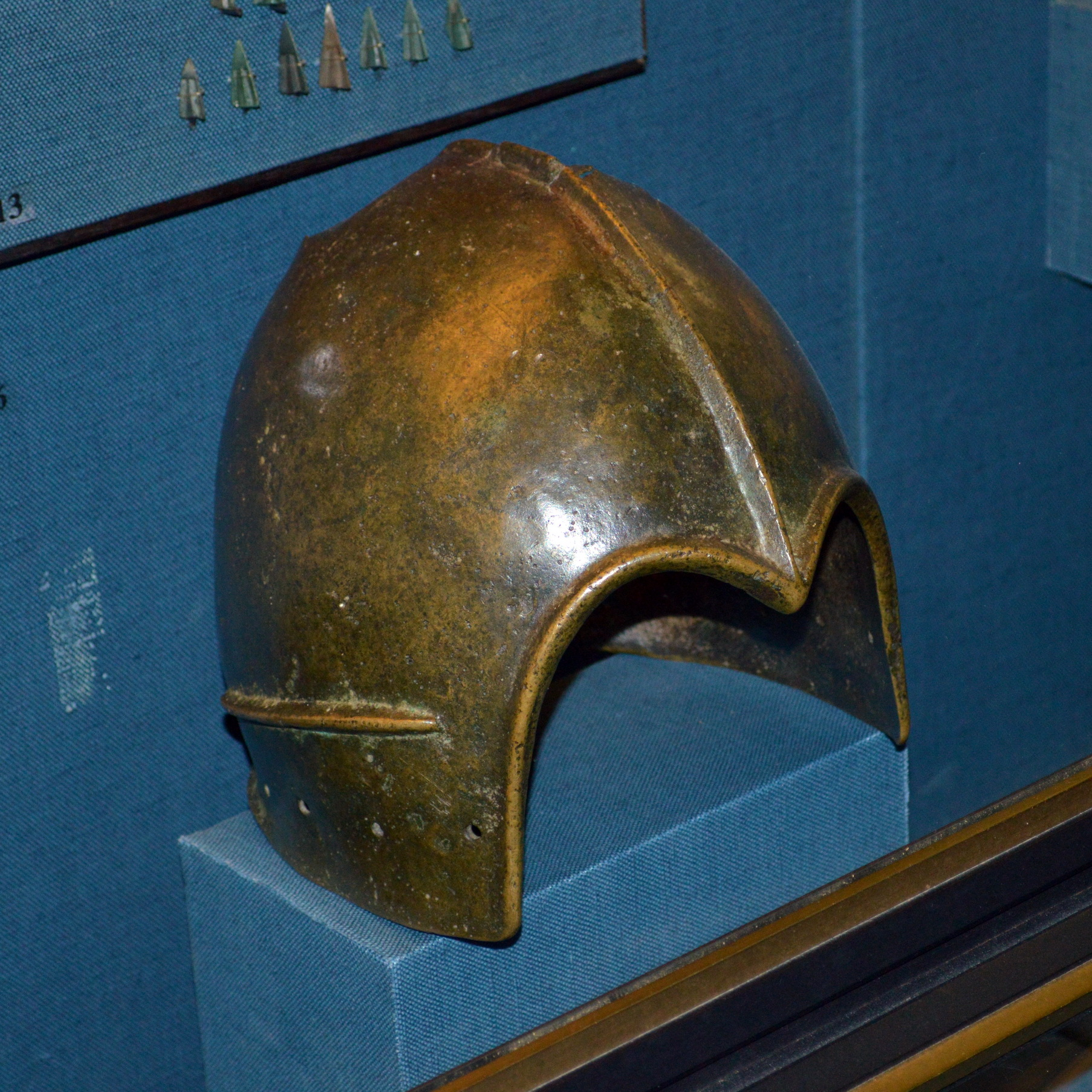 Bronze helmet, Scythians, 7-5 c. BC.